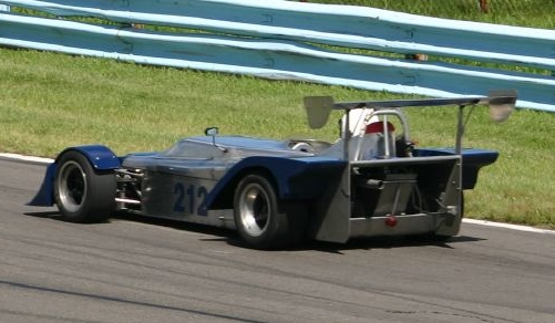 1972 Mallock U2 (1600cc) :Bob Crozier :New York, NY